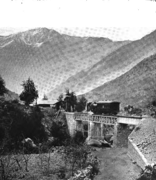 Photograph of a train on the Transandine railway crossing the bridge at Rio Blanco circa 1909